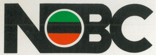 NOBC Logo